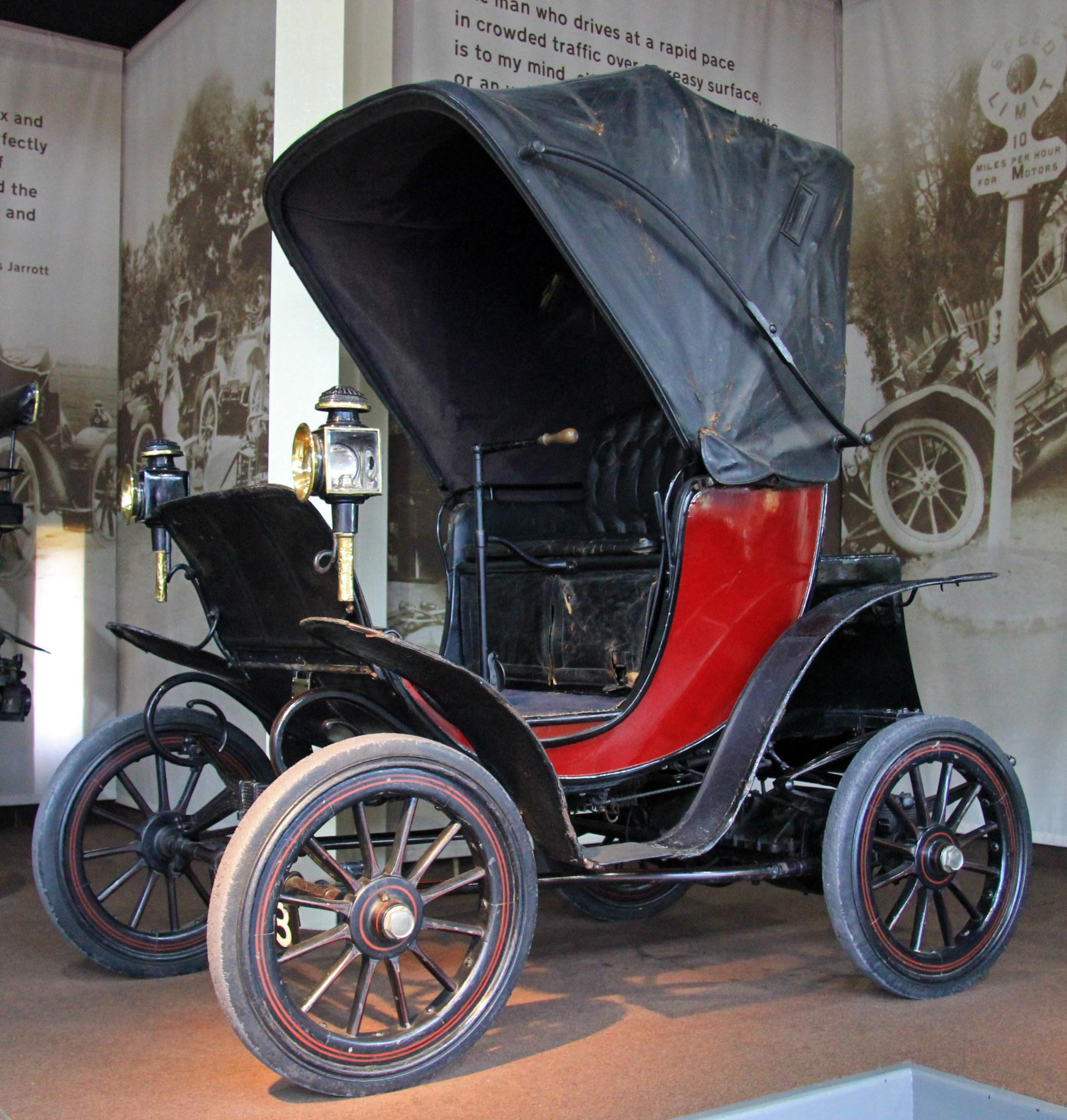 1901 Columbia Electric American The electric car had a certain popularity at the turn of the century. Because it was silent and fumeless, this car was bought by Queen Alexandra for driving around the grounds of Sandringham House. It is fitted with a foot-operated bell instead of a horn. R.G.J. Nash acquired it for his collection at Brooklands in the 1930s, he later drove it regularly when petrol was rationed. Cylinders: n/a Valves: n/a Capacity: n/a Power Output: n/a Maximum Speed: 12mph Price New: Not quoted Manufacturer: Electric Vehicle Company, Hartford, Connecticut Owner: Richard and Mary Nash Housing a collection of over 250 automobiles and motorcycles telling the story of motoring on the roads of Britain from the dawn of motoring to the present day, the award winning (Winner - The International Historic Motoring Awards of the Year 2012) National Motor Museum appeals to all age groups. From World Land Speed Record Breakers including Campbell’s famous Bluebird to film favourites such as the magical flying car, Chitty Chitty Bang Bang and rare oddities like the giant orange on wheels. Don’t miss exciting extra features such as the Motorsport Gallery, Wheels and Jack Tucker's Garage - A permanent, multi award-winning 1930's garage has been created within the Museum, complete down to the last nut and bolt and rusty drainpipe. Whilst the building is a complete fabrication, everything in it - all the fixtures, fittings, tools and ephemera - are genuine artefacts collected over a period of 25 years.